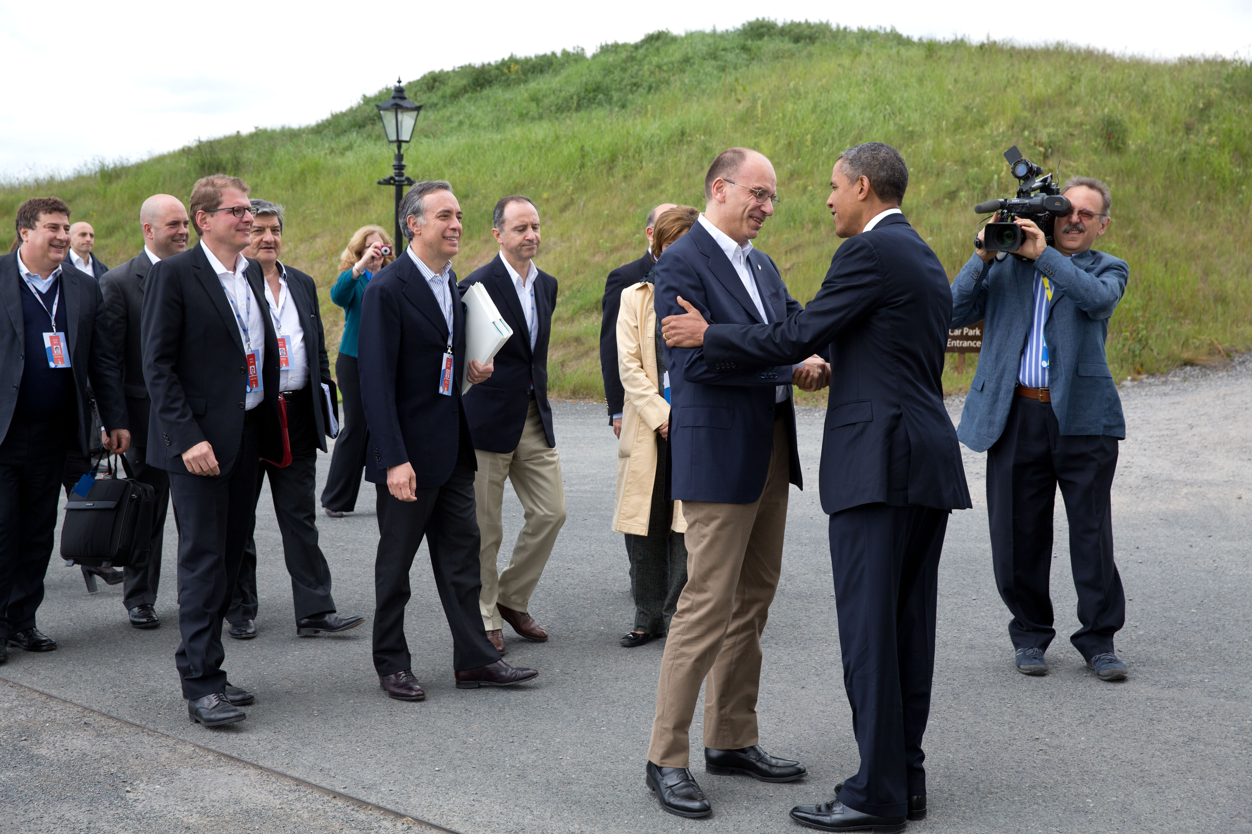 President Barack Obama of the United States greets Prime Minister Enrico Letta of Italy at the G8 Summit in Lough Erne, Northern Ireland on 17 June 2013.